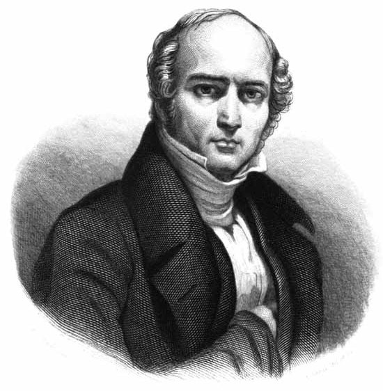 Portrait of Odilon Barrot (1791-1873)